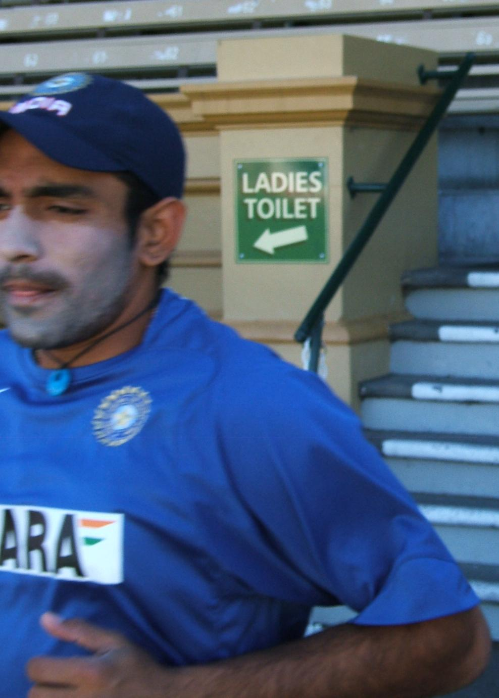 Robin Uthappa at Adelaide Oval